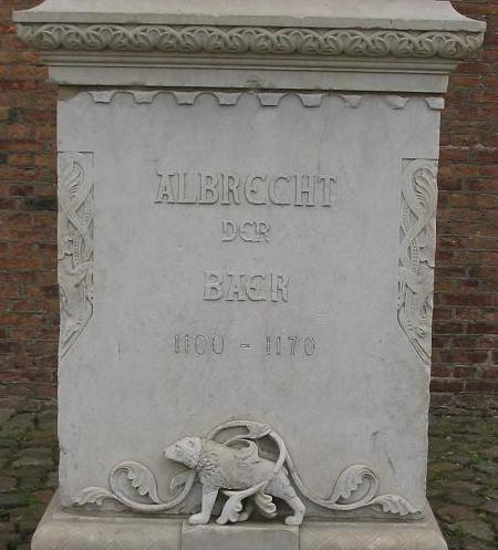 Pedestal of the Monument commemorating Albert the Bear by Walter Schott – originally part of the Siegesallee in Berlin, today at Spandau Citadel.